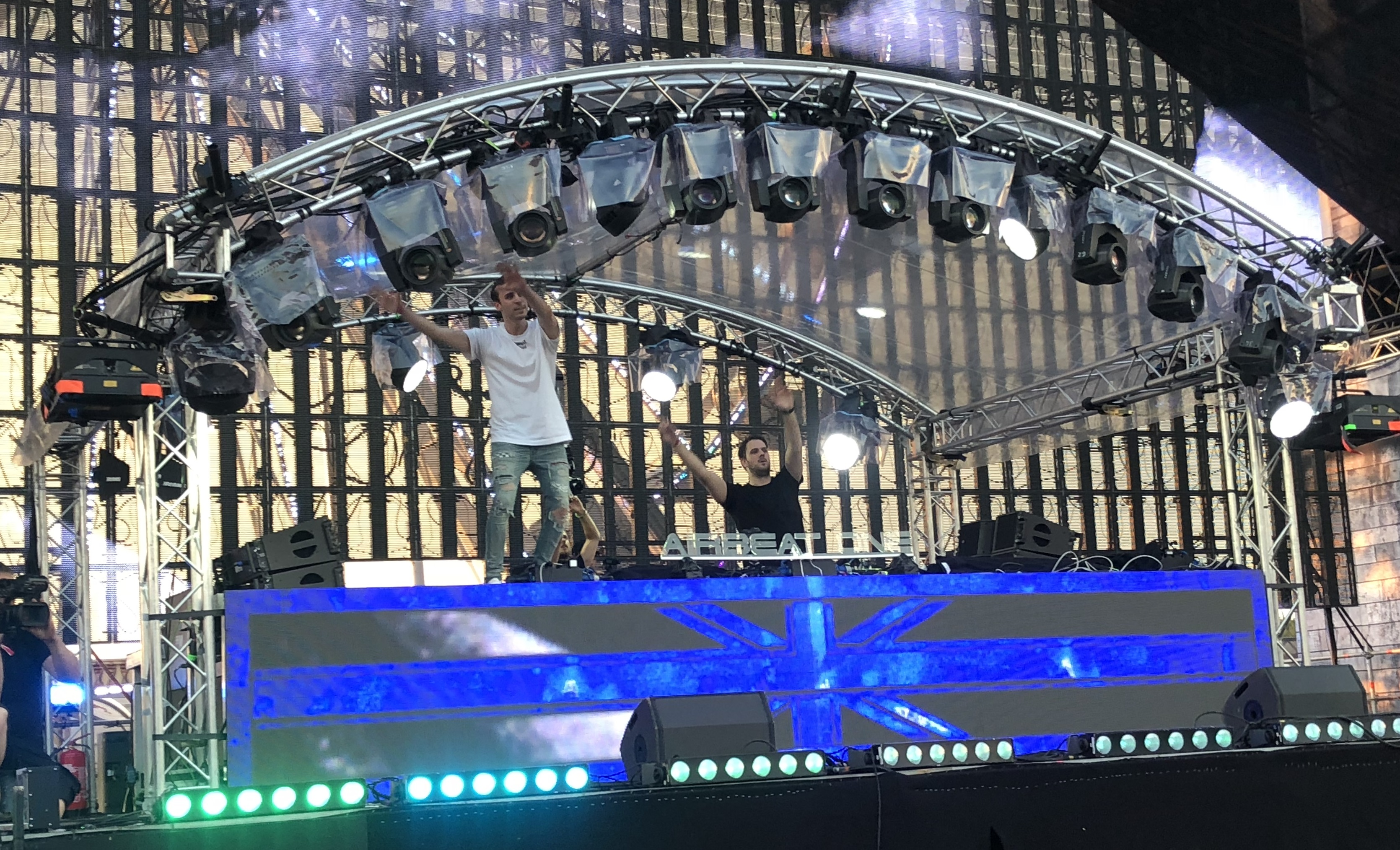 Dutch dj duo W&W playing live at Airbeat One Festival 2018 in Neustadt-Glewe, Germany.